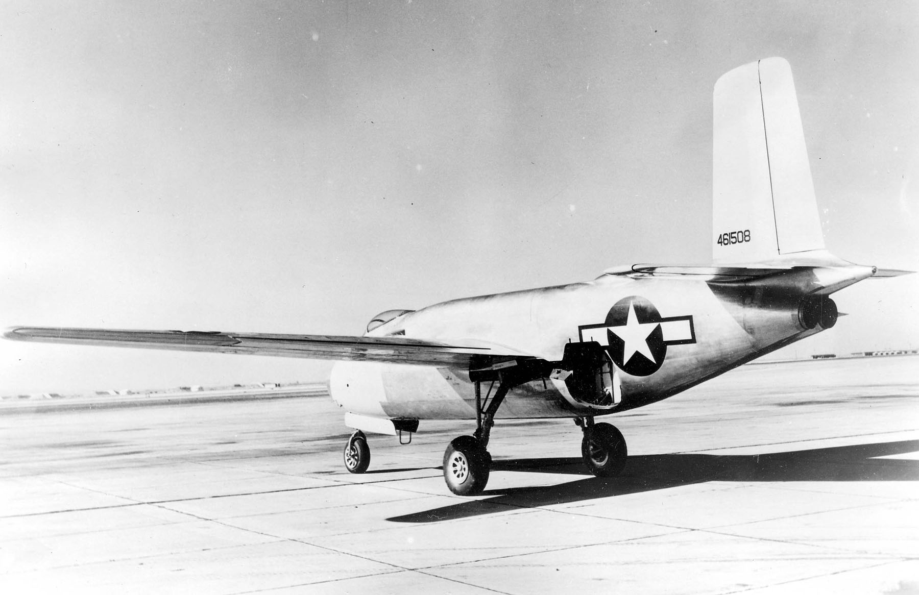 Douglas XB-43 rear view